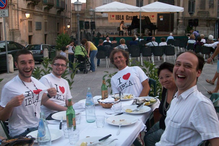 piazza pola, ragusa, ibla grand prize team